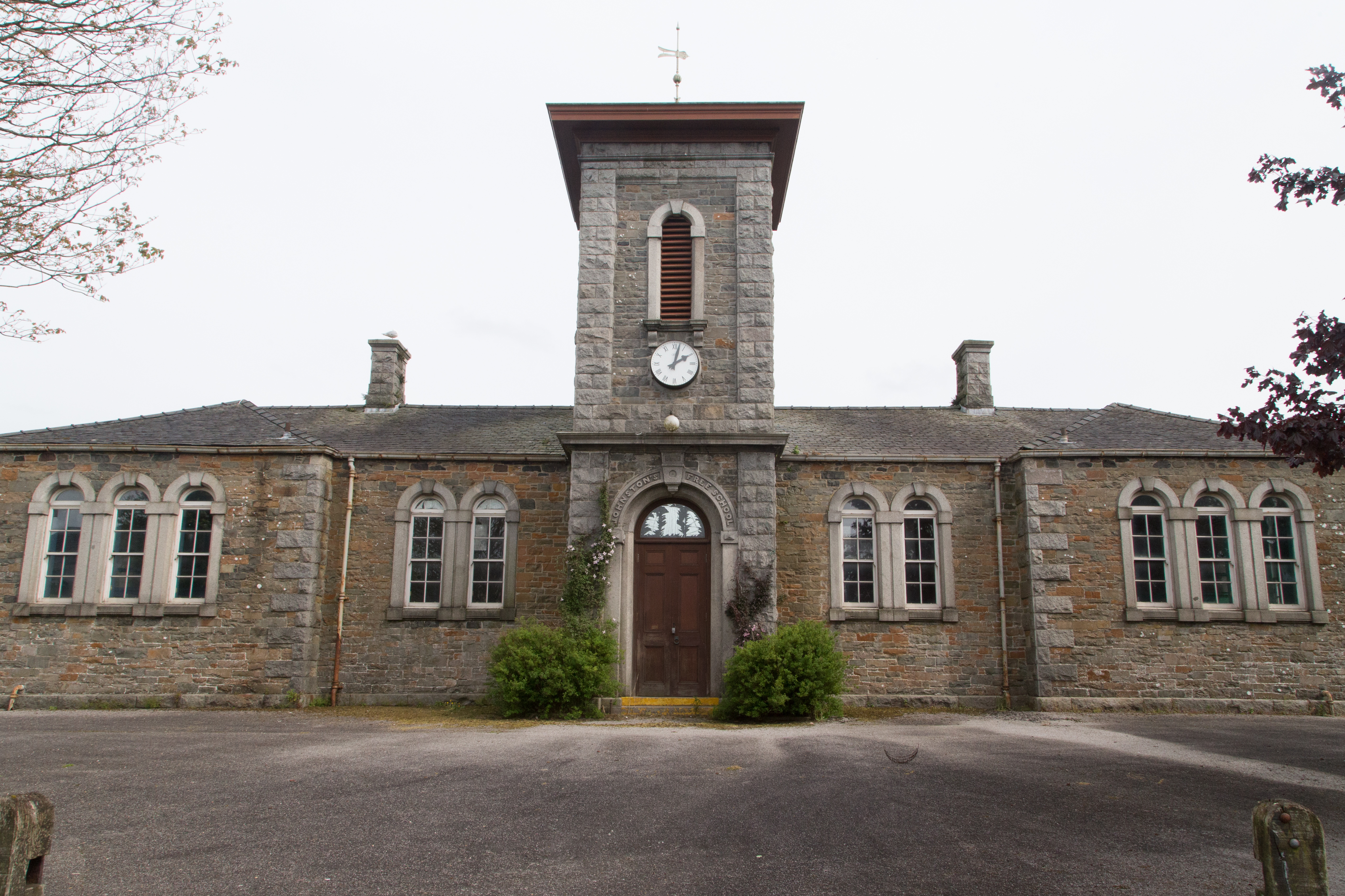 Kirkcudbright, Style Mary Street, Johnston School (former) Wikidata has entry Q17807263 with data related to this item.